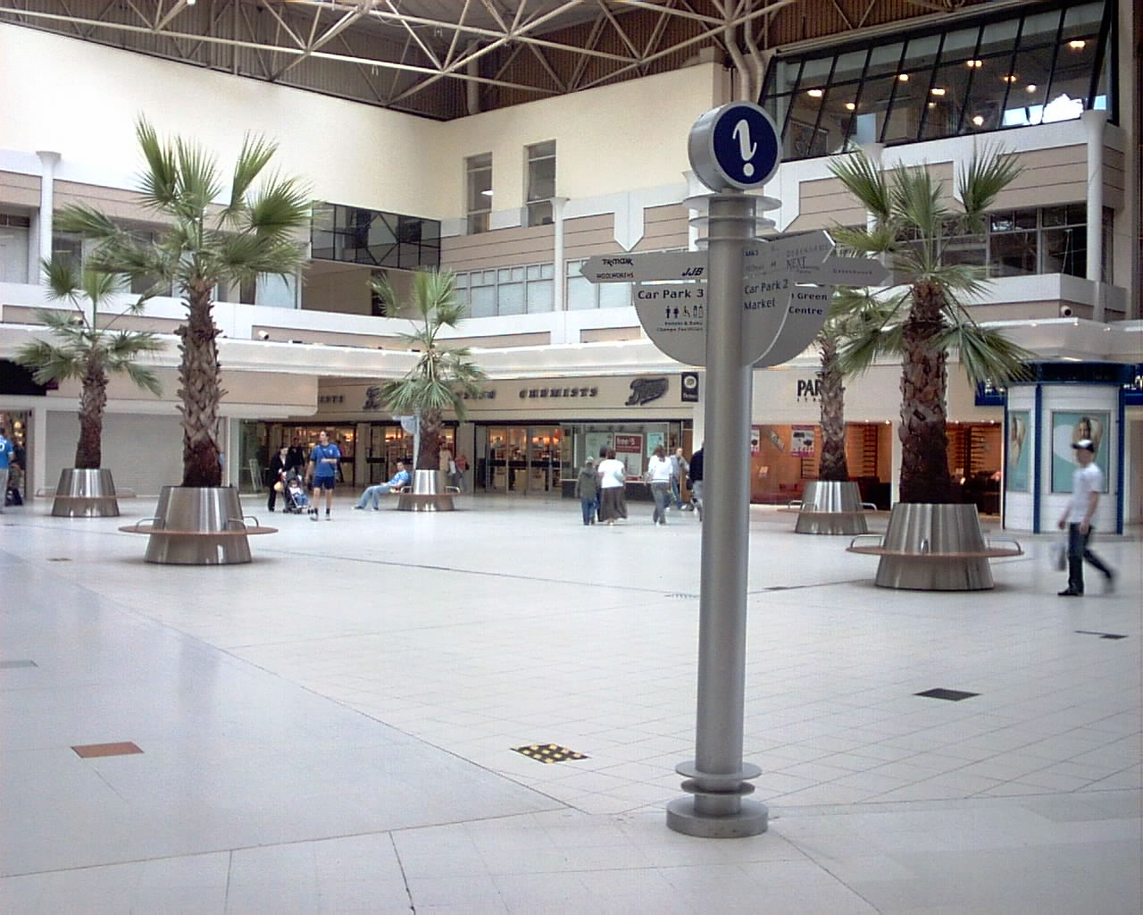 Worcester Square, Redditch, as it used to look before the palm trees were removed and a coffee shop was laid out in the space vacated.